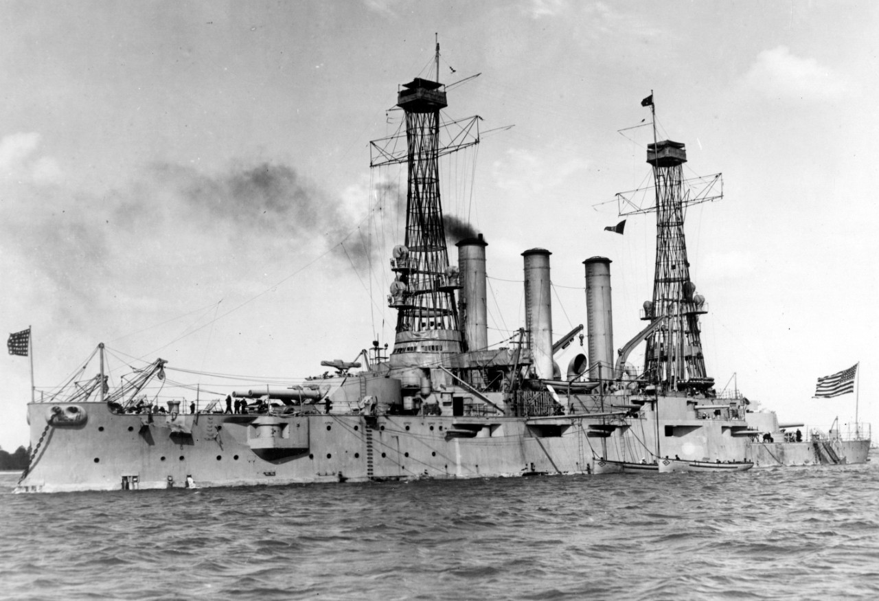 Photo # 19-N-13078 USS Missouri during World War I Photographed circa 1918, flying a Rear Admiral's flag. Note that some of her broadside guns have been removed for wartime service in other ships. Photograph from the Bureau of Ships Collection in the U.S. National Archives.